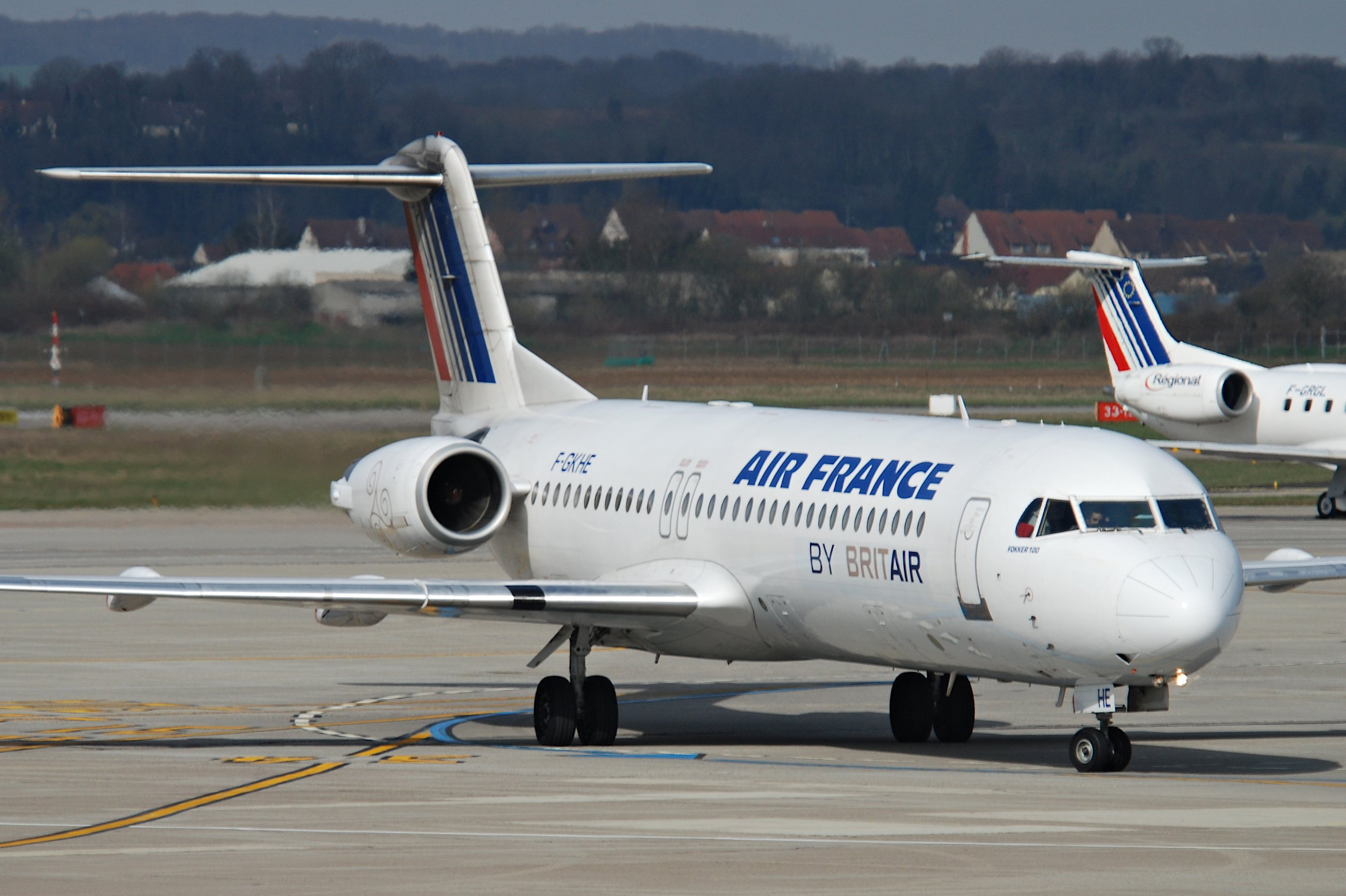 First flight: March 24, 1992... 30/04/1992 Swissair HB-IVK 26/06/1996 CCM Airlines F-GKHE 26/03/2004 Brit Air F-GKHE stored 07/2011